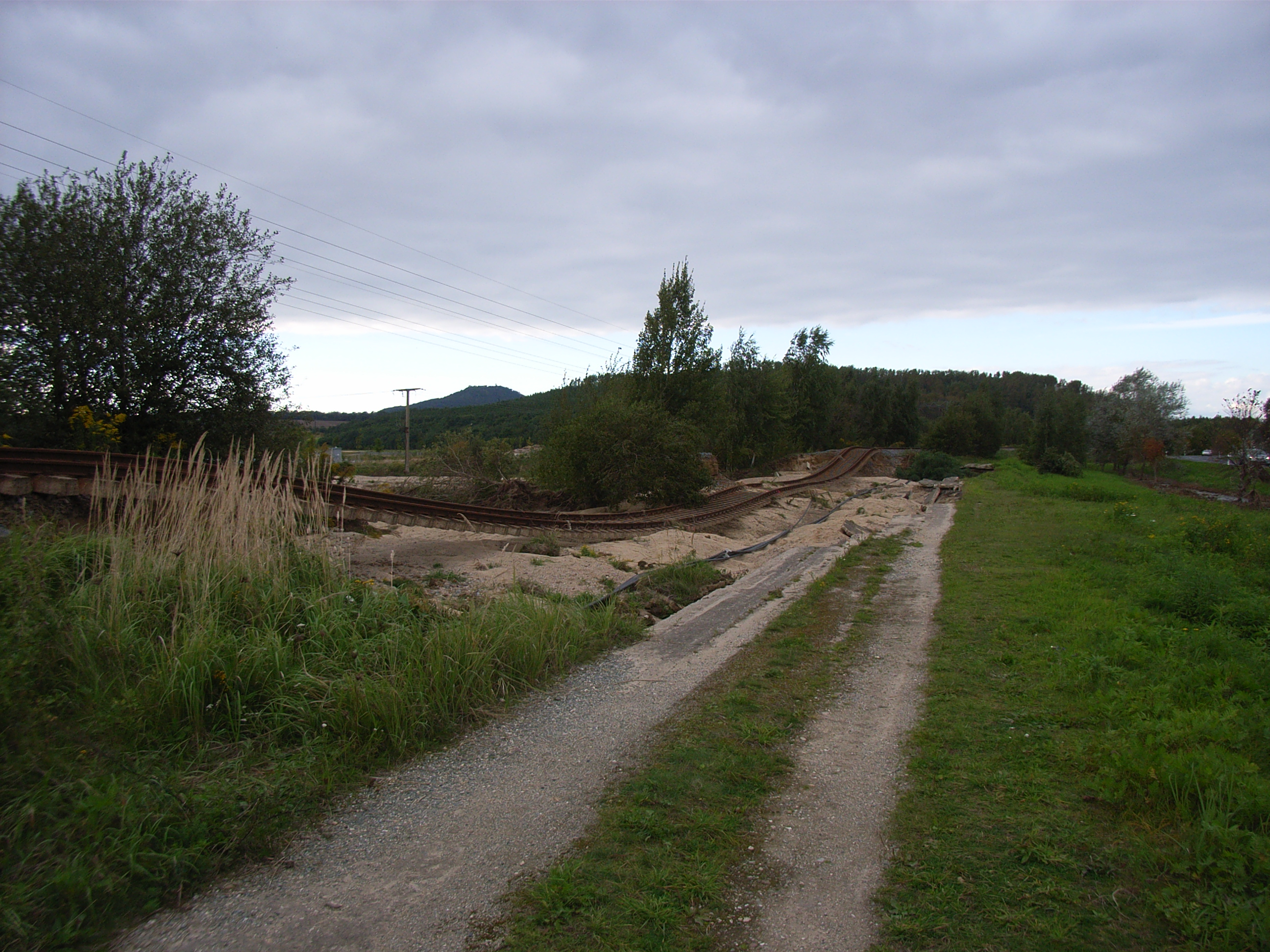 destroyed railway line between Görlitz and Zittau near Görlitz-Weinhübel in Saxony, Germany